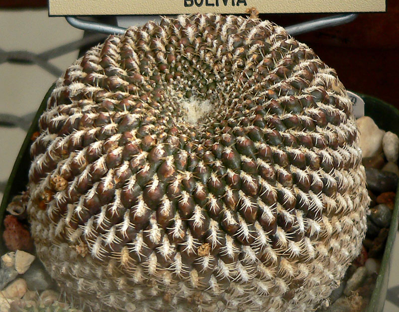 Rebutia arenacea at the University of California Botanical Garden, Berkeley, California